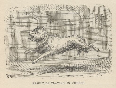 Illustrations de The Adventures of Tom Sawyer, 1876.